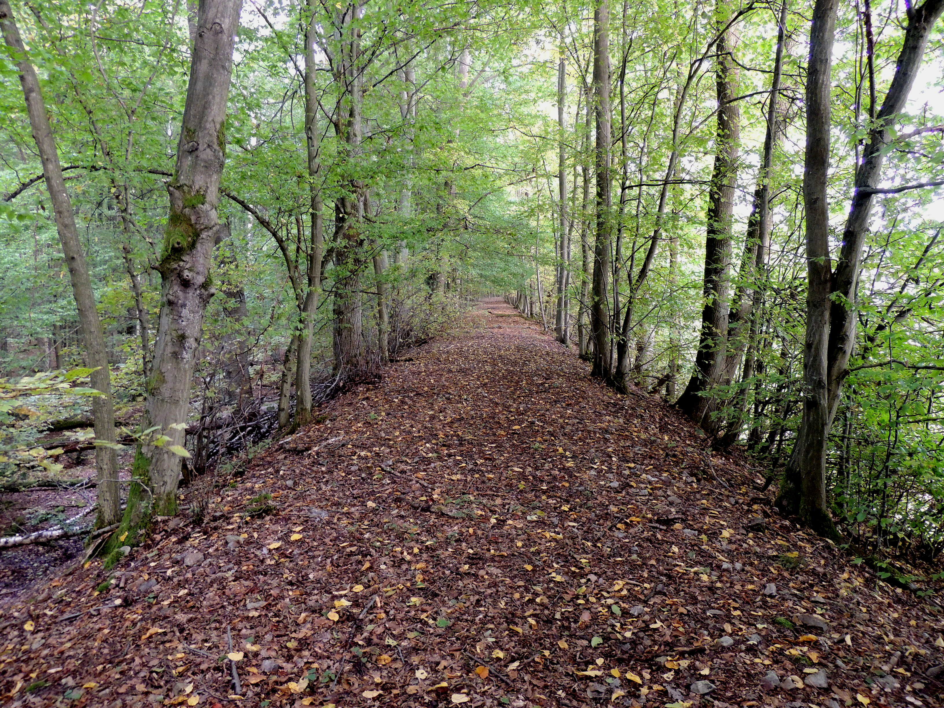 Former railway embankment of the 1935 abandoned Saalburgbahn of the Bad Homburg Tramway near Bad Homburg-Dornholzhausen, Germany, in September 2017